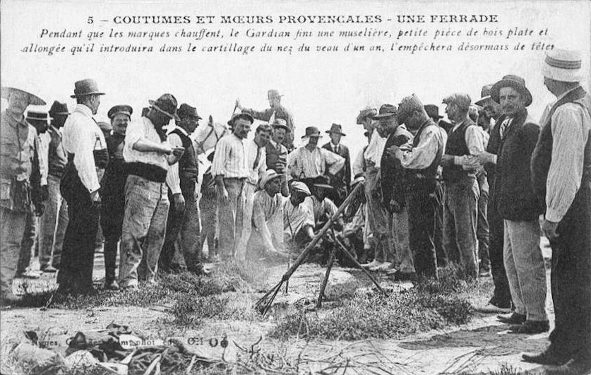 Branding of calves in French Camargue in the 1900s.